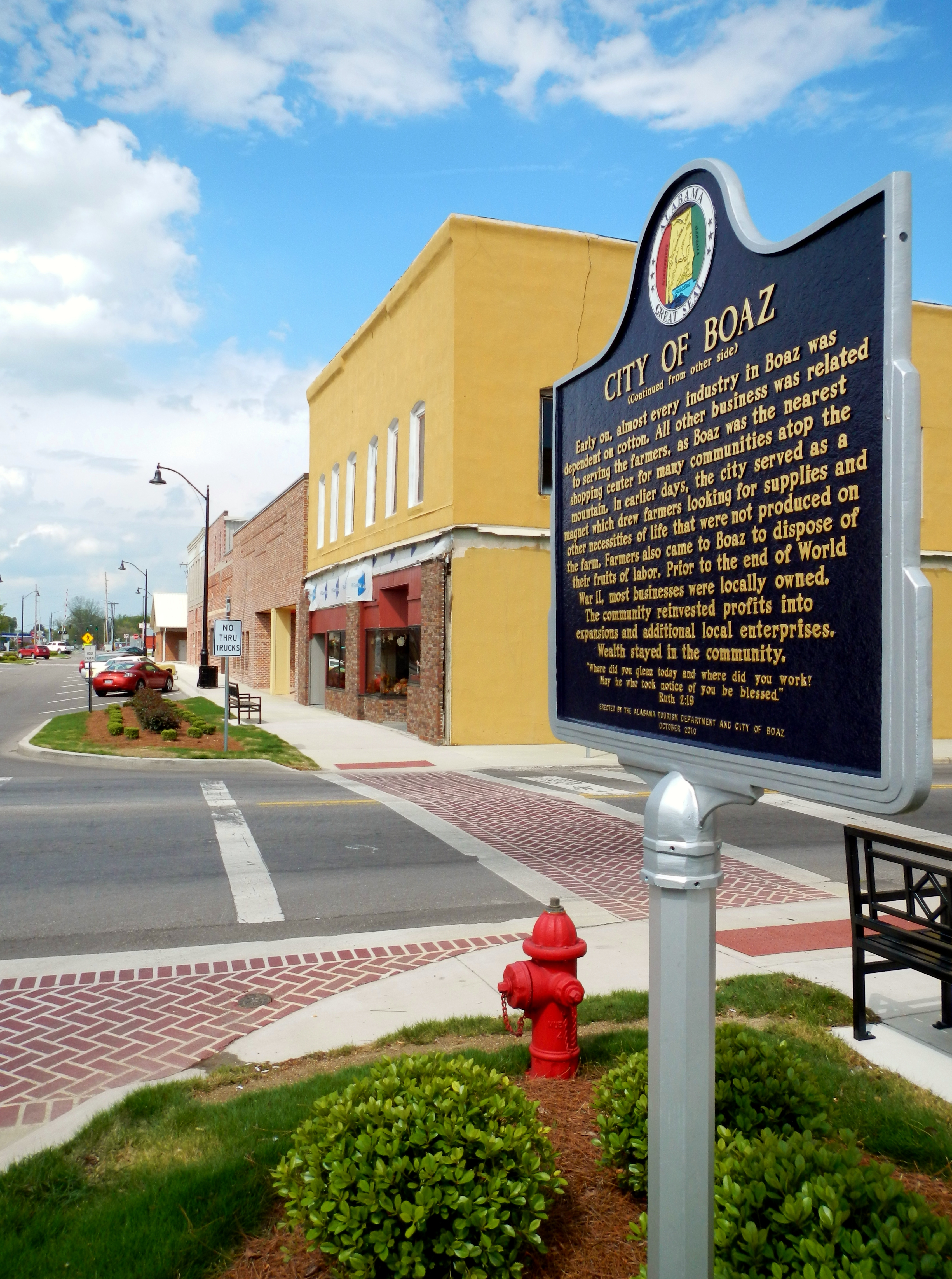 This is a photograph of Boaz, Alabama.